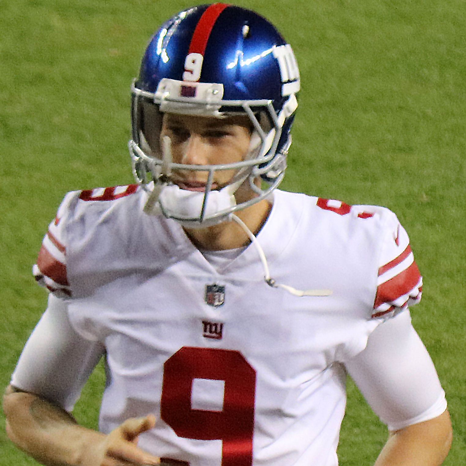 Brad Wing, a player on the National Football League.